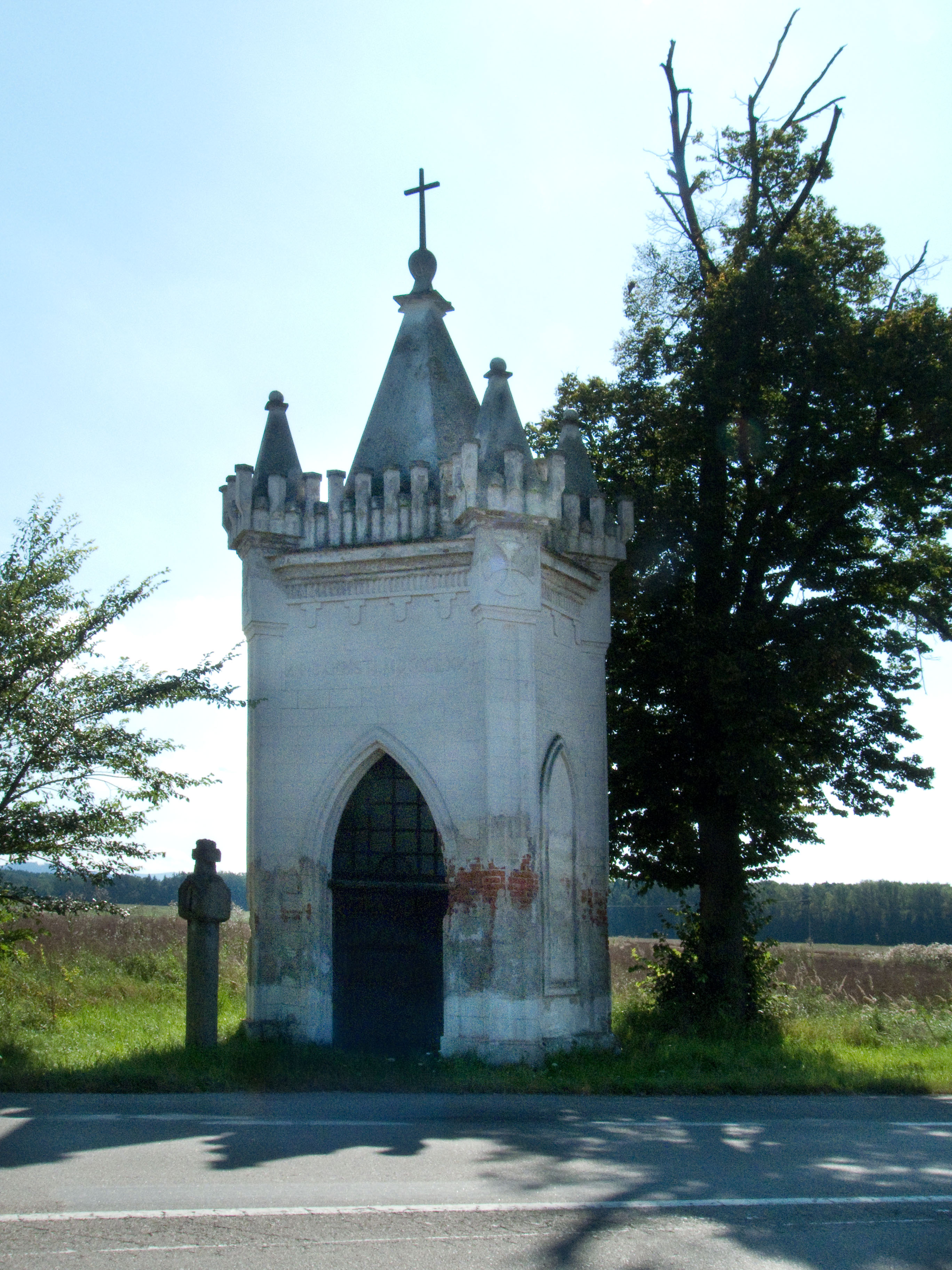 Chapel at the crossroads to Netolice in Češnovice, České Budějovice district, Czech Republic